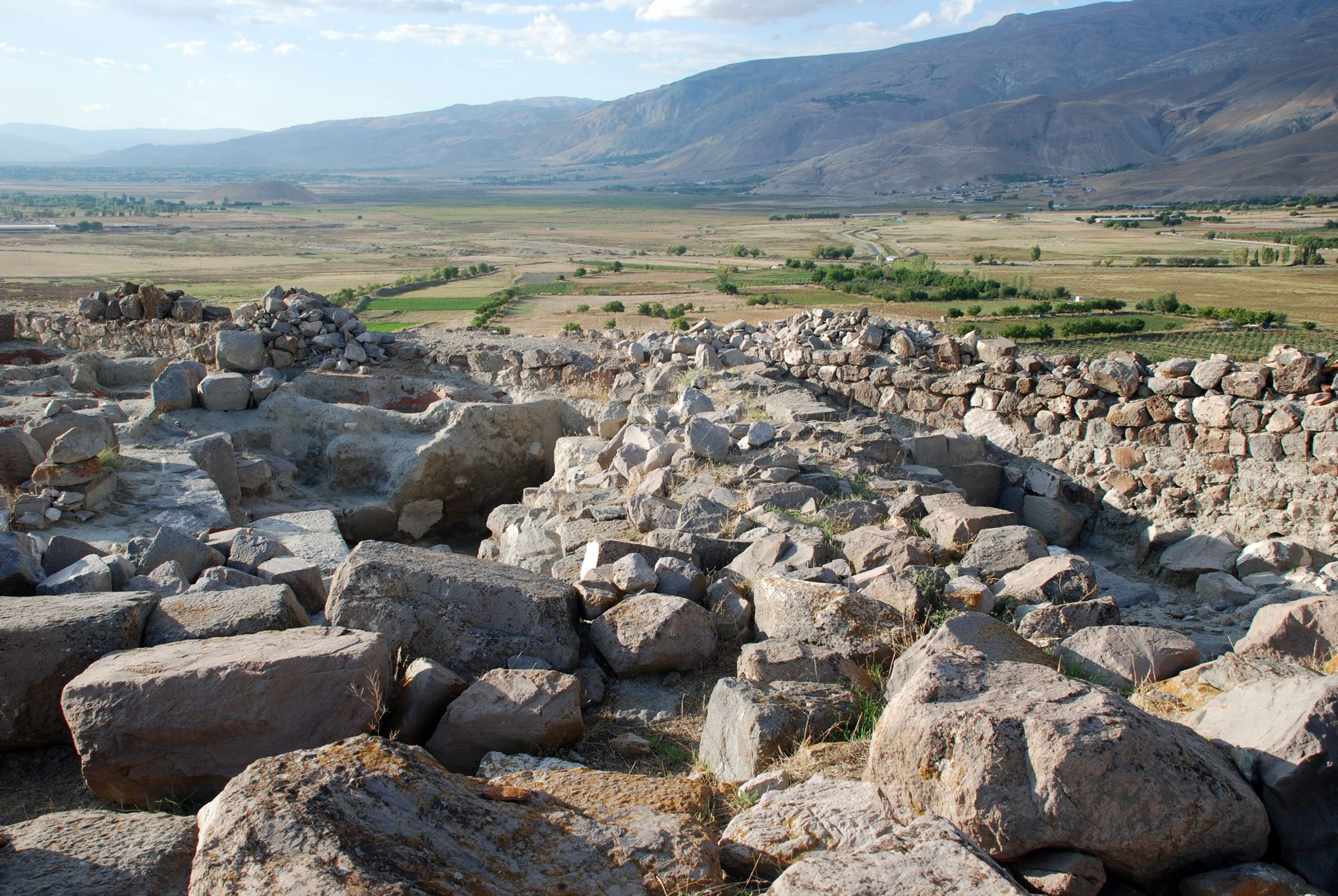 Altintepe, near Erzincan, northwest